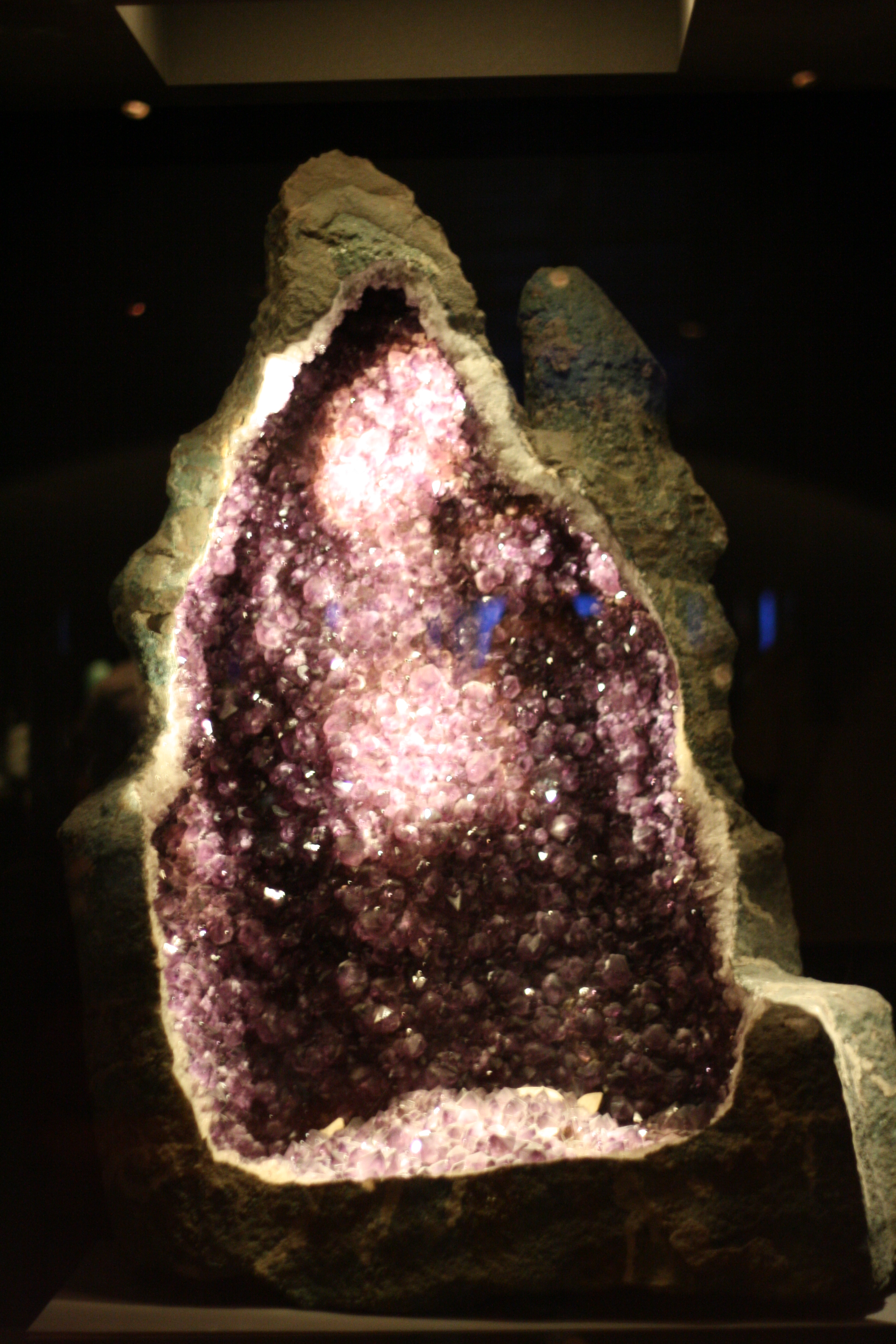 Quartz (Amethyst Geode) Trigonal silicon oxide Rio Grande do Sul, Brazil HMNS 5277 Wikipedia Loves Art at the Houston Museum of Natural Science This photo of item # 5277 at the Houston Museum of Natural Science was contributed under the team name "The_Wookies" as part of the Wikipedia Loves Art project in February 2009. Houston Museum of Natural Science The original photograph on Flickr was taken by andytang20—please add a comment to the original Flickr page whenever a use has been made on Wikipedia or another project. Project galleries on Flickr: this institution, this team